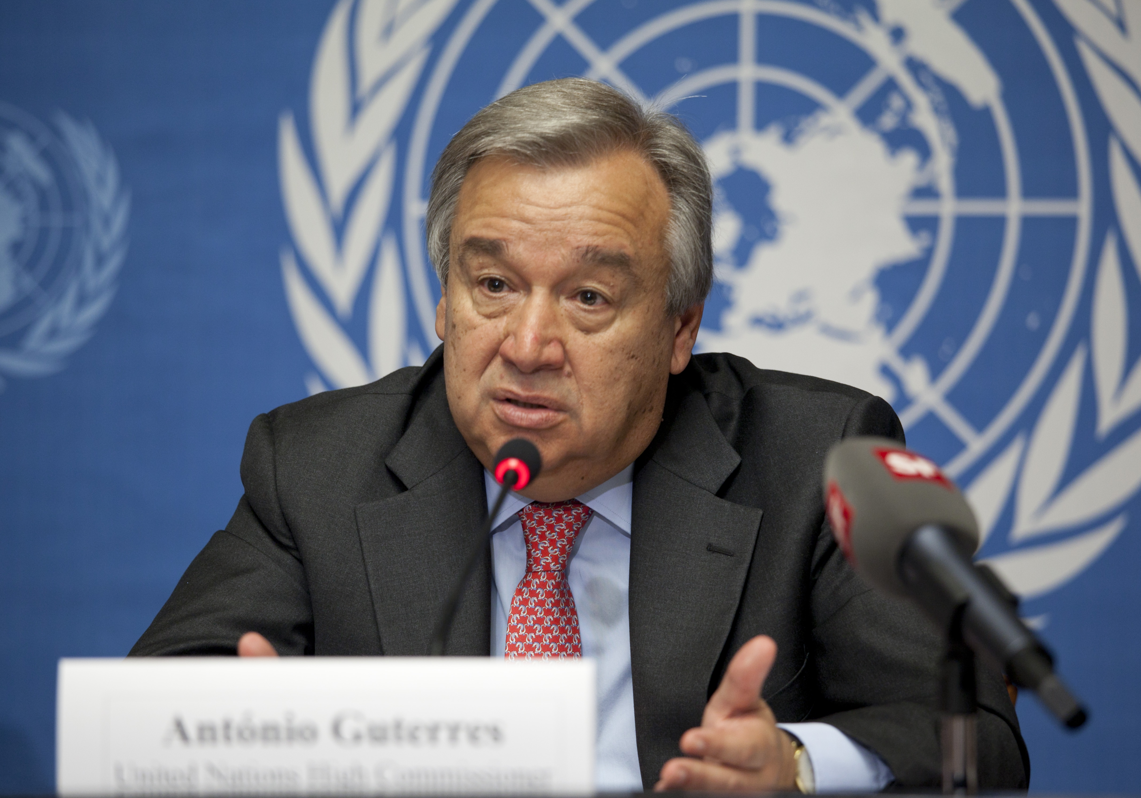 Anne C. Richard, Assistant Secretary of State for Population, Refugees, and Migration and UN High Commissioner for Refugees (UNHCR) Antonio Guterres briefed the international media in Geneva August 3, 2012 after returning from a joint trip to Burkina Faso to review the situation of Malian refugees. Since January of this year, conflict and insecurity in Mali have generated more than 260,000 Malian refugees; an additional 155,000 Malians are estimated to be internally displaced.